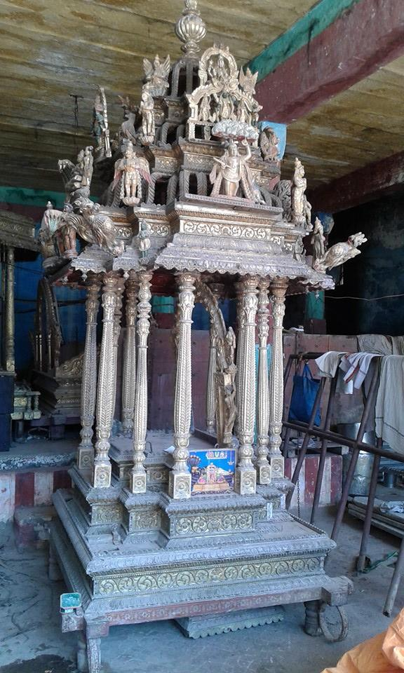 ART OF RELIGION